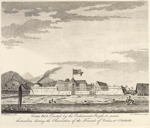 Fort Venus on the Island of Tahati